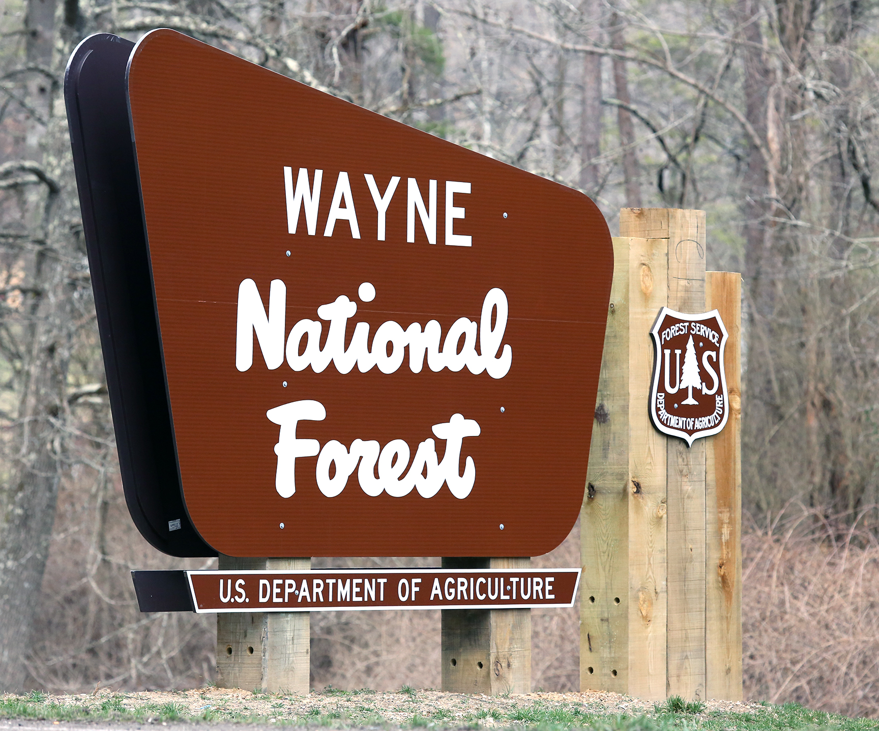 New sign for the Wayne National Forest